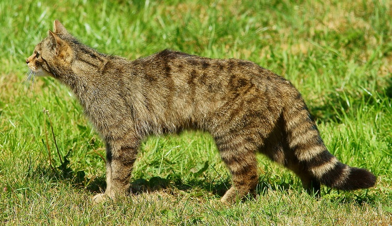 Seen at the British Wildlife Centre, Newchapel, Surrey; at the afternoon Keeper's talk.